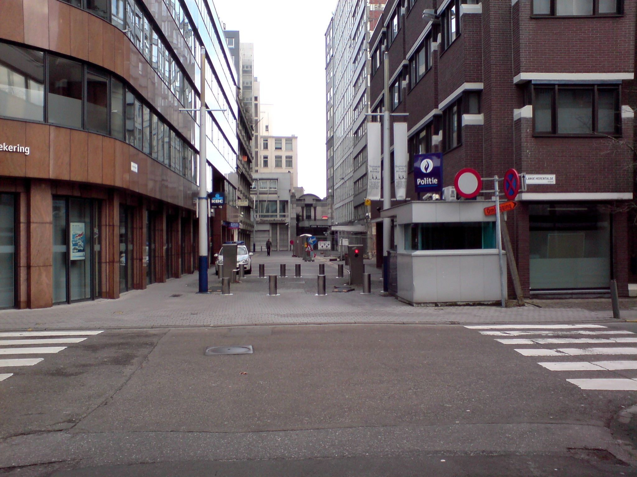 Antwerp diamond centre